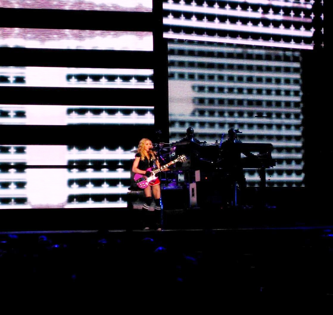 Madonna performing Borderline